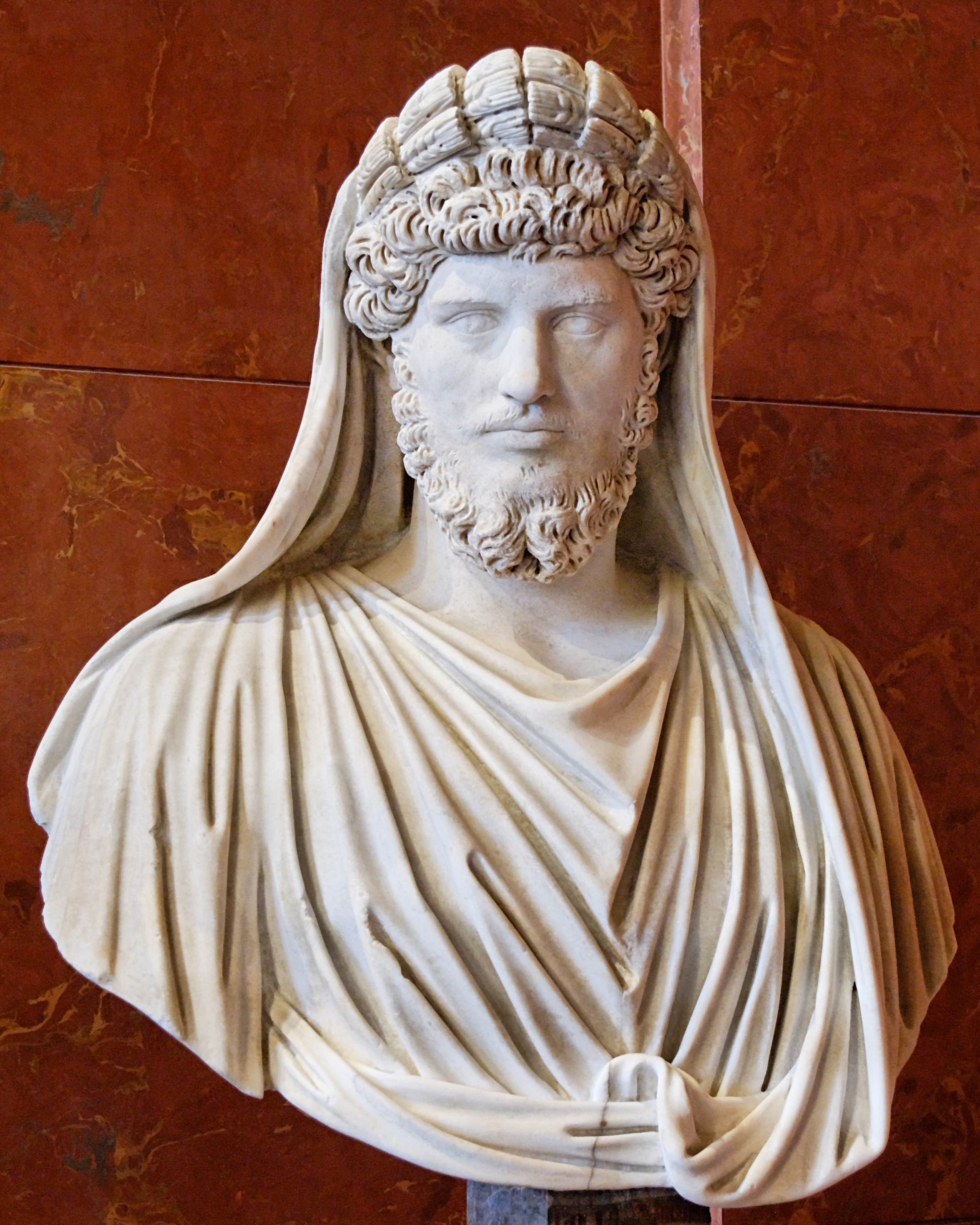 Portrait of Lucius Verus as Frater Arvalis; the bust and crown are modern additions.